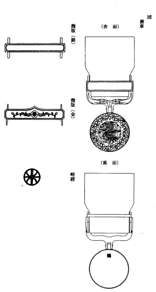 Japanese Medals of Honour after 2003 type